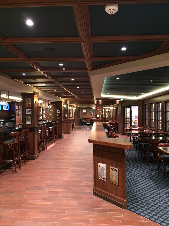 Interior shot of the Bronze Anchor, a British-themed pub aboard the MSC Meraviglia.